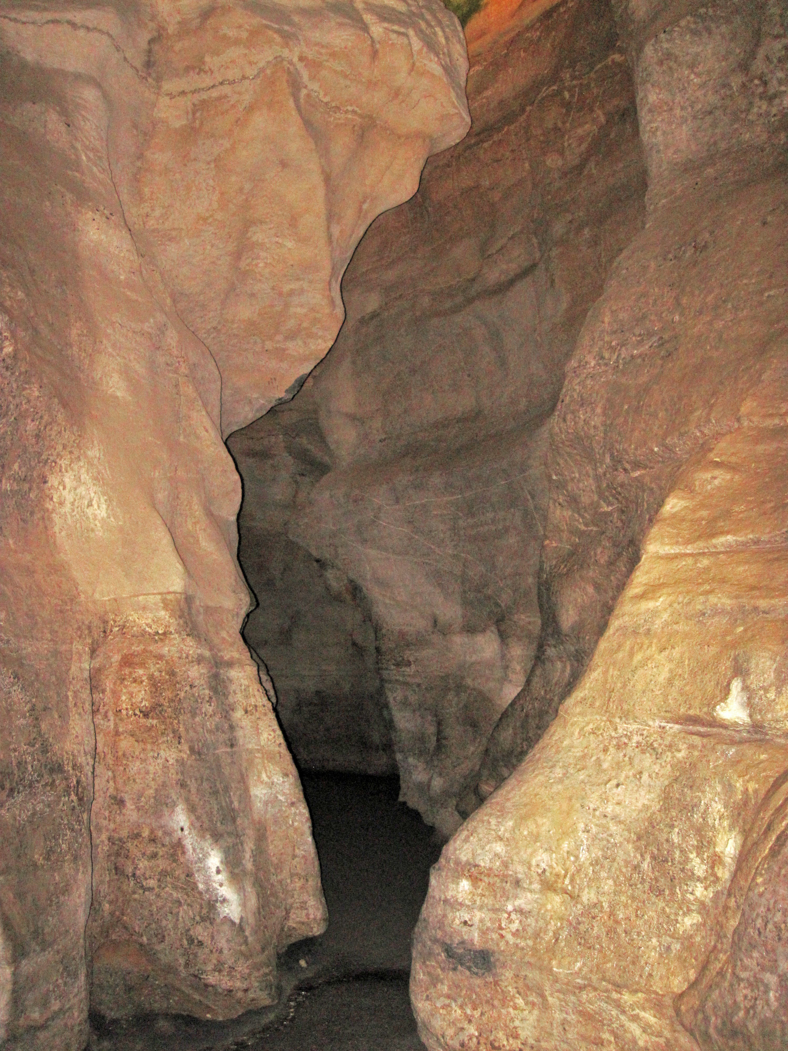 Canyon passage in a cave in Virginia, USA. Skyline Caverns is developed in structurally tilted carbonates (mixed dolostones and limestones) of the Rockdale Run Formation (Beekmantown Group, Lower Ordovician). Cave passages vary significantly in their size, sinuousity, and cross-section shape. Passages that are taller than they are wide are called canyon passages - they form in the vadose zone (above the water table). Locality: Skyline Caverns, Front Royal, central Warren County, northern Virginia, USA